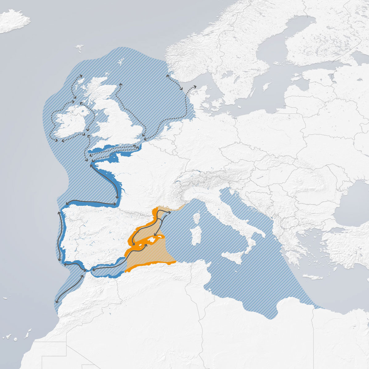 Seasonal Distribution and movements of Balearic Shearwater (Puffinus mauretanicus): orange – main foraging range in breeding time, orange stripes – whole foraging range in breeding time, blue – main non-breeding distribution, blue stripes – non-breeding distribution in low numbers, continous line – main movements, dotted line: scarce movements